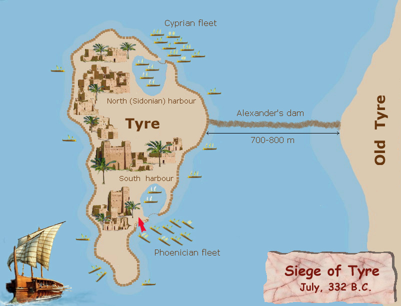 Siege of Tyre based on the ancient authors and aerial photos